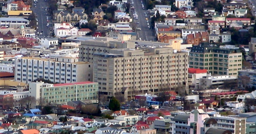 Dunedin Public Hospital, own photo taken from Signal Hill. Dunedin, New Zealand.